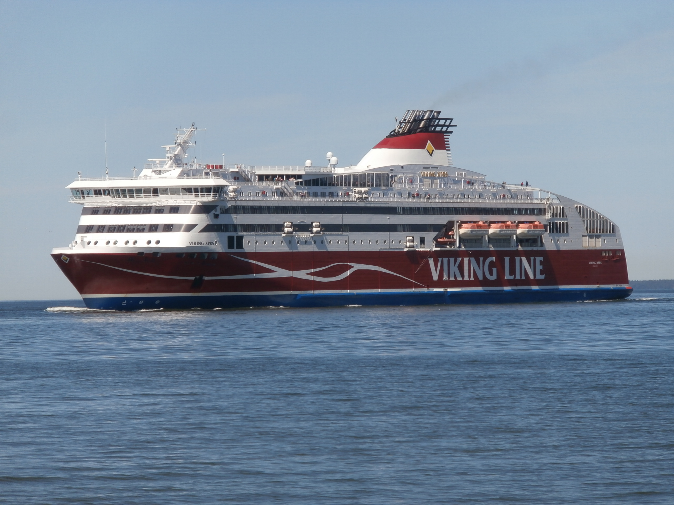 Viking XPRS arriving at Tallinn 2 July 2015